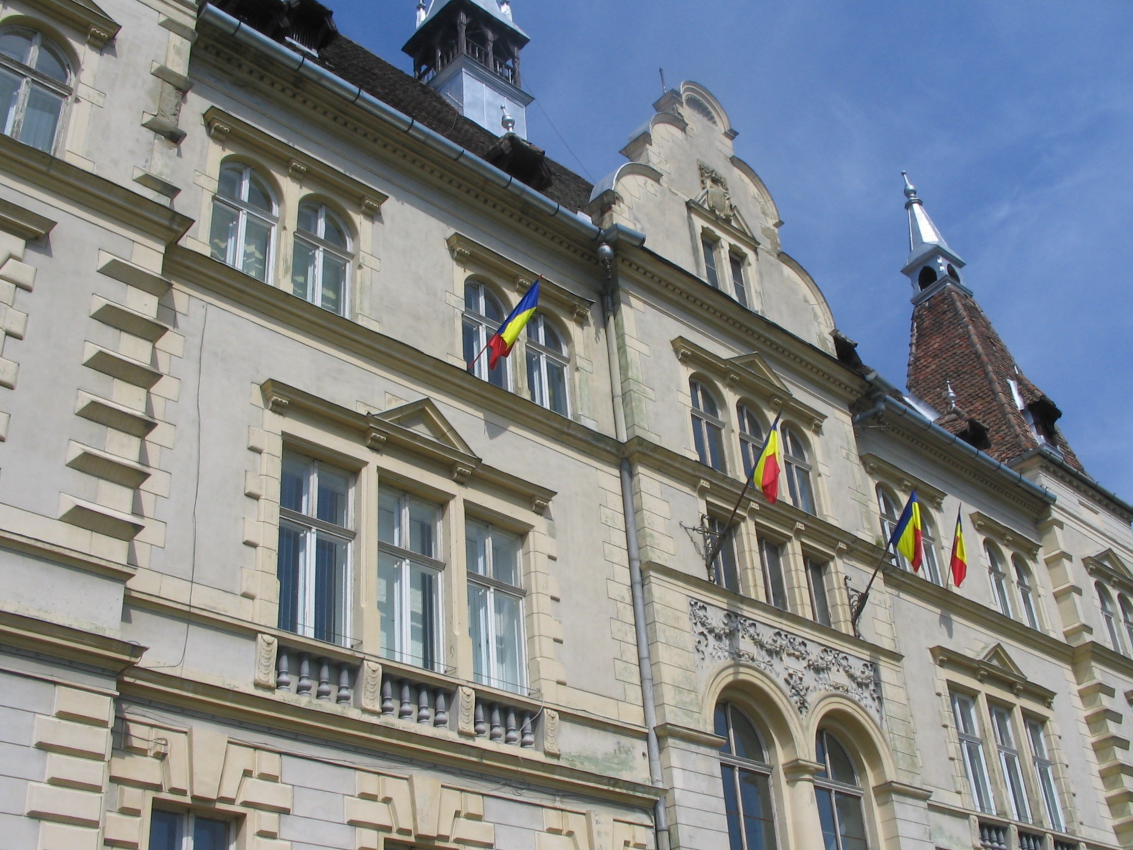 Sighişoara Town Hall